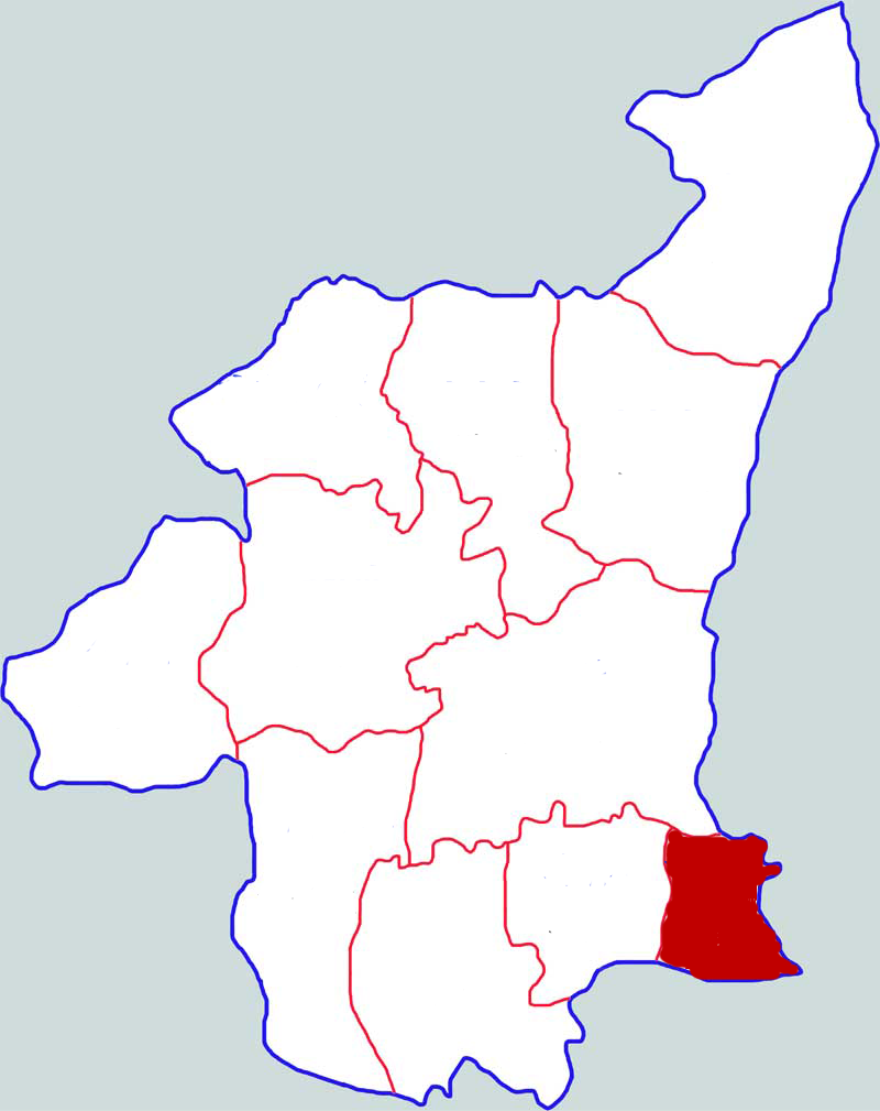 Location of Tongguan county in Weinan city, China